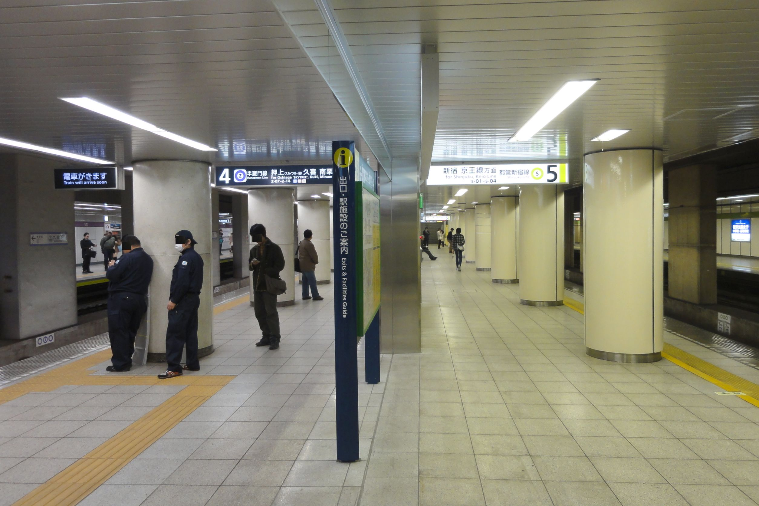 Newly created cross-platform interchange at Kudanshita Station in Tokyo, with the Tokyo Metro Hanzomon Line on the left and Toei Shinjuku Line on the right